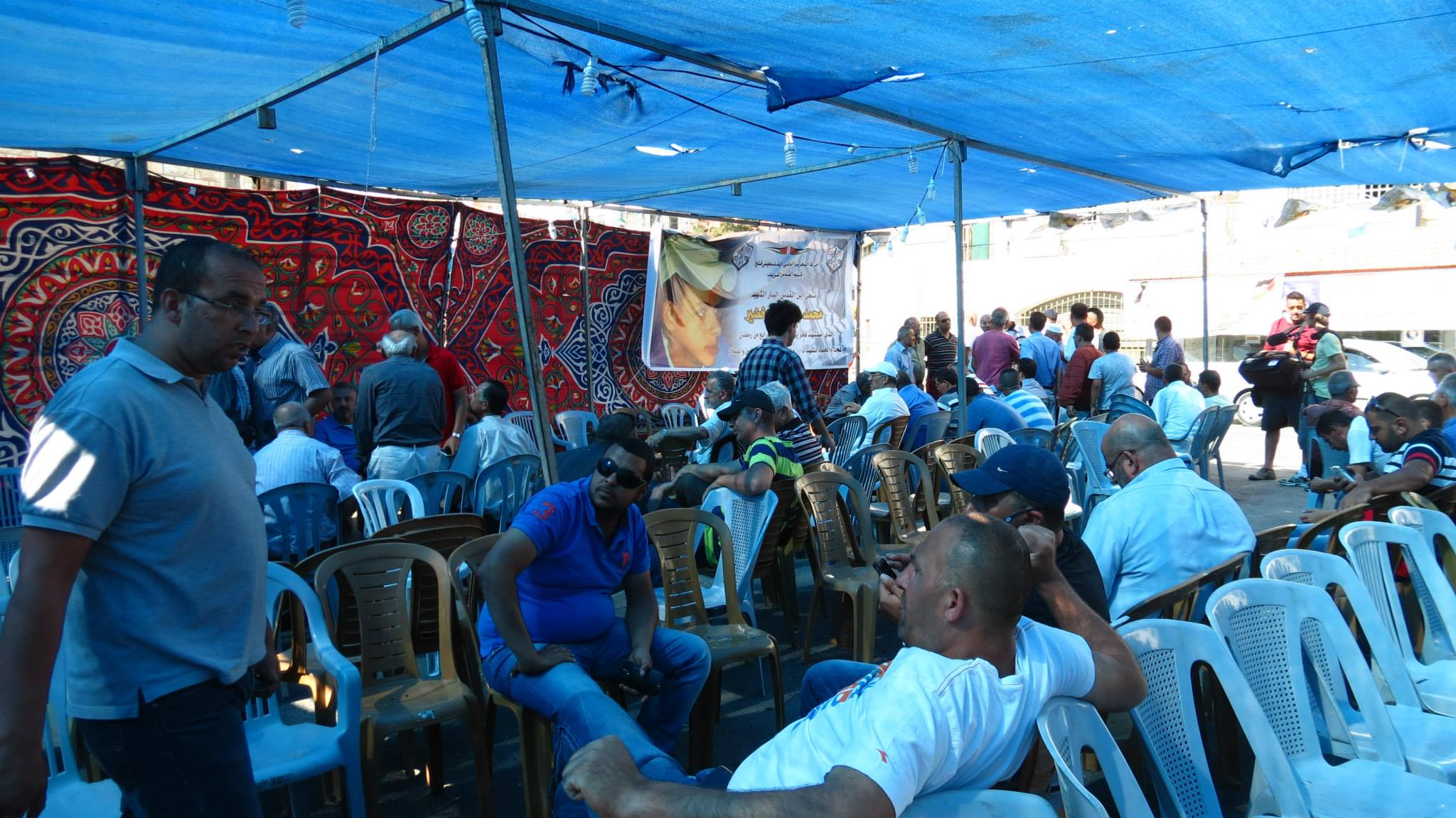 Mourning tent of Muhamed Abu Khdeir, Jerusalem 2014